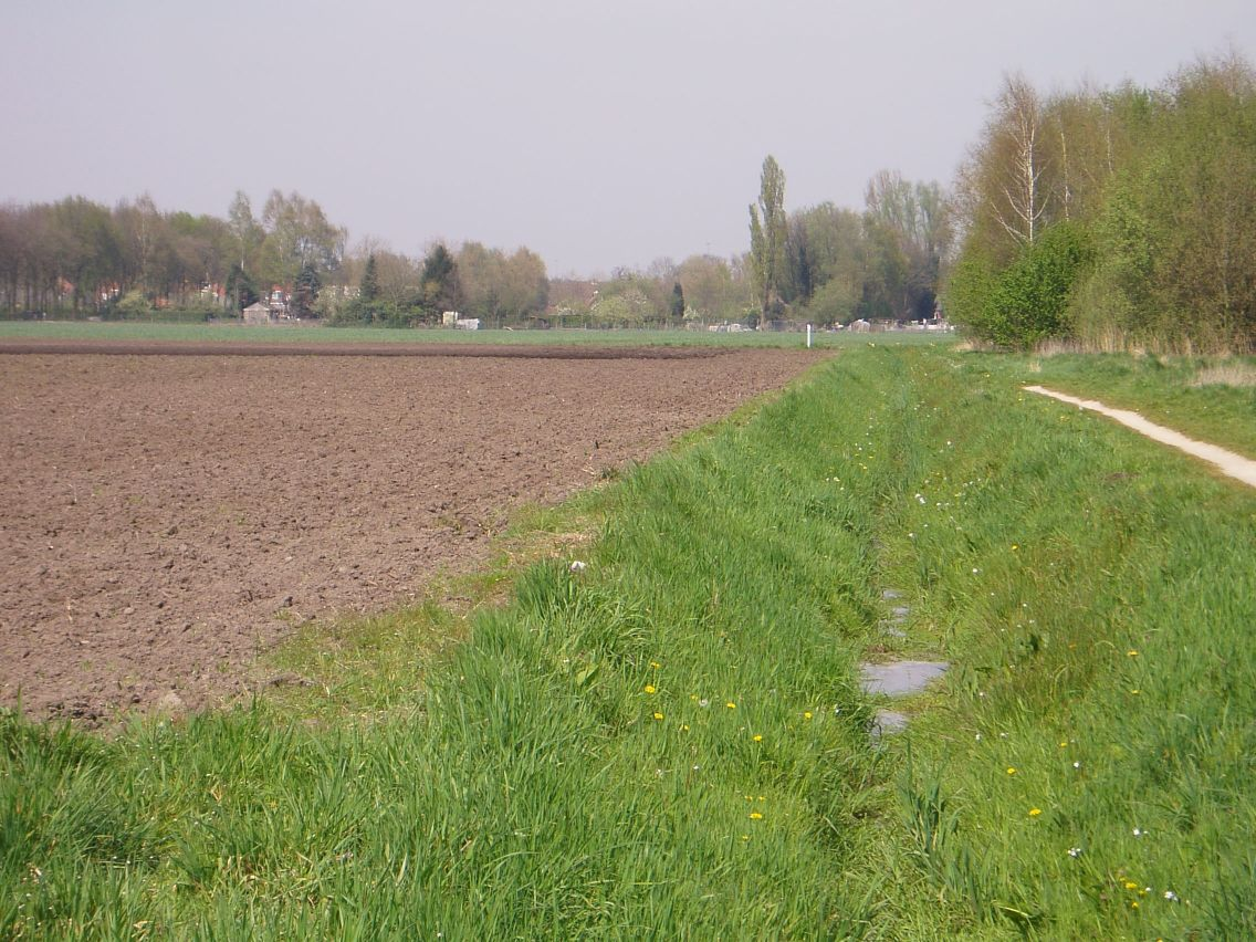 Reusel River south west of Reusel